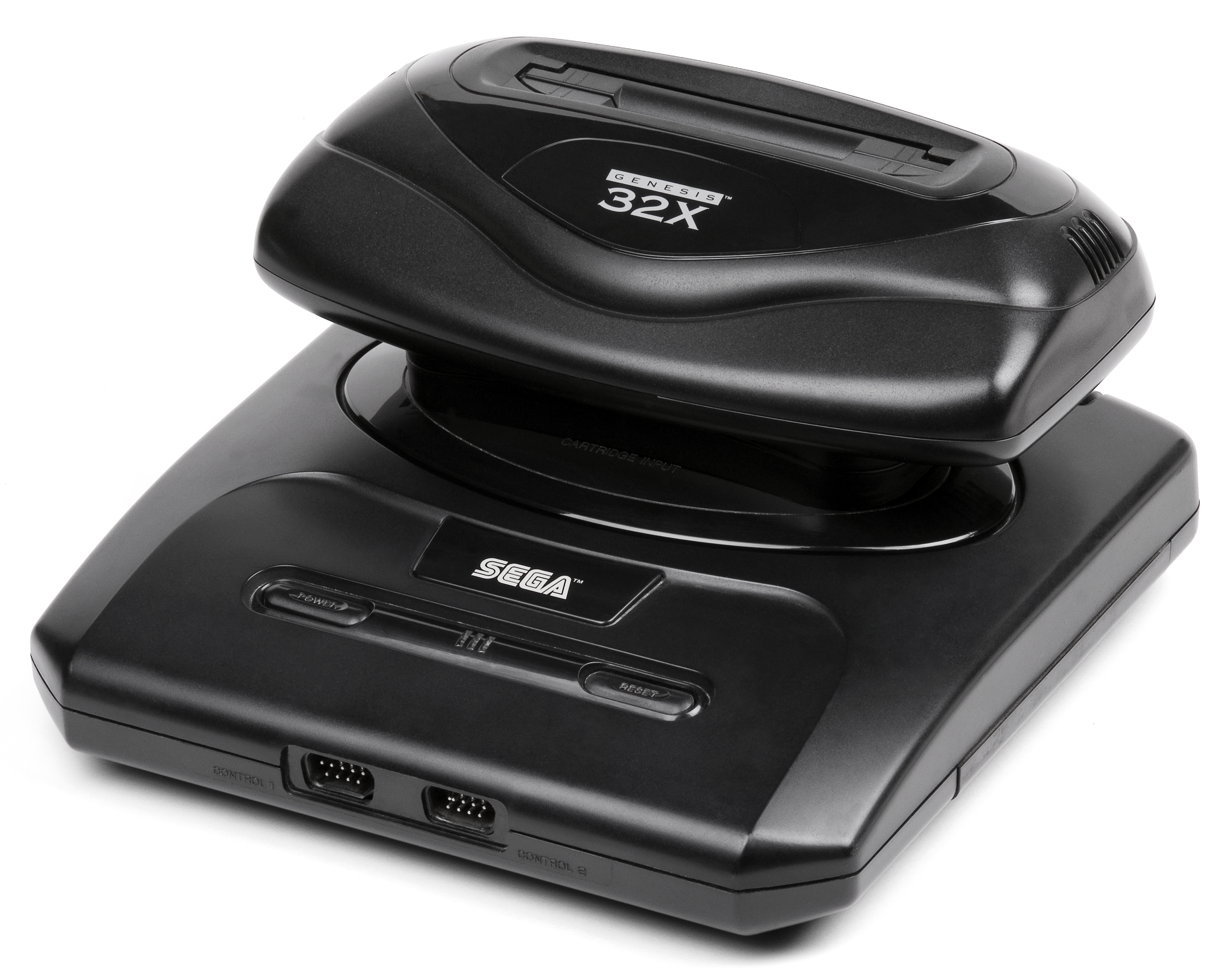 A Sega 32X attached to a model 2 Sega Genesis. This is the PNG version.